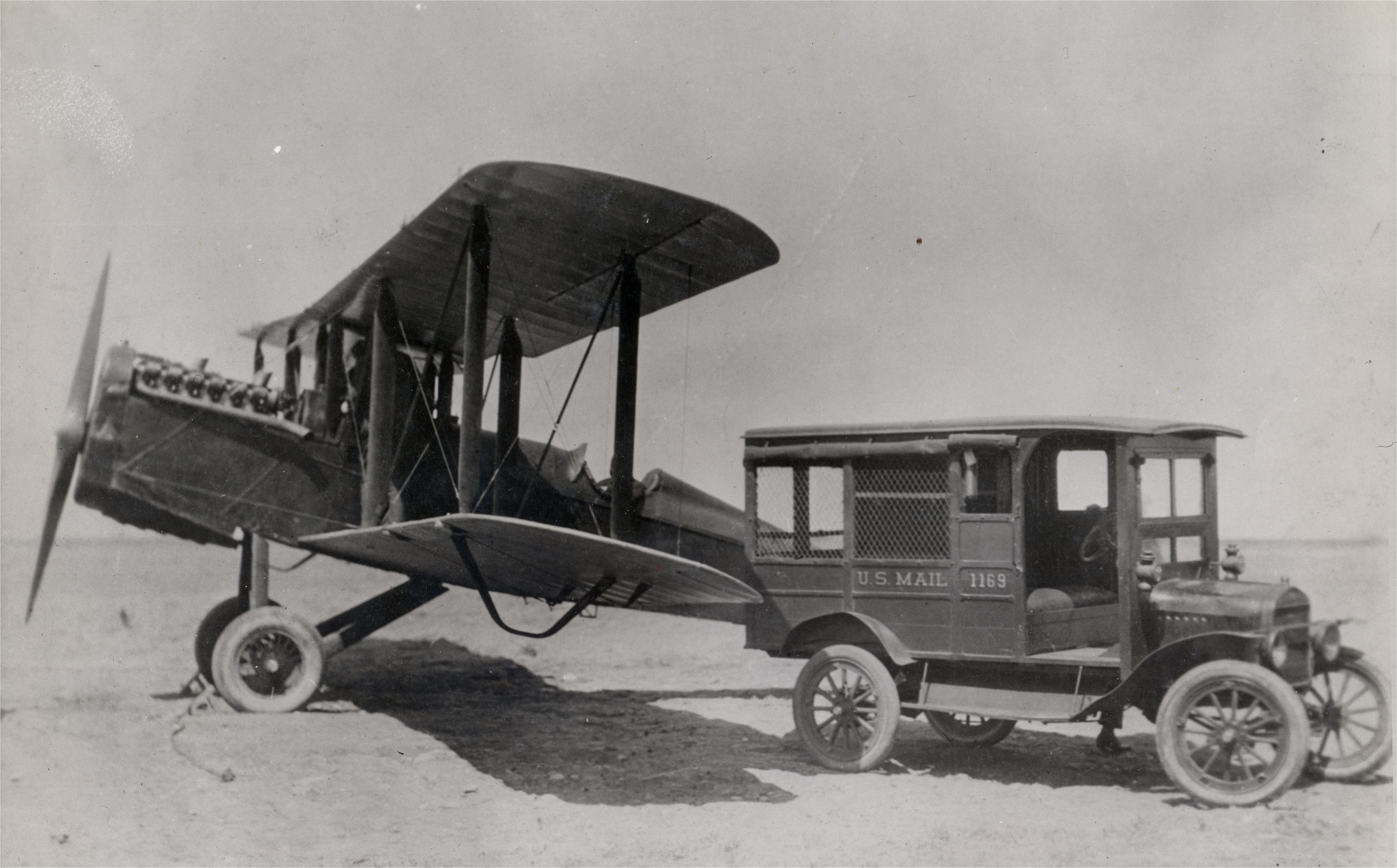 US mail truck with a de Havilland airmail plane